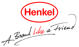 logo henkel